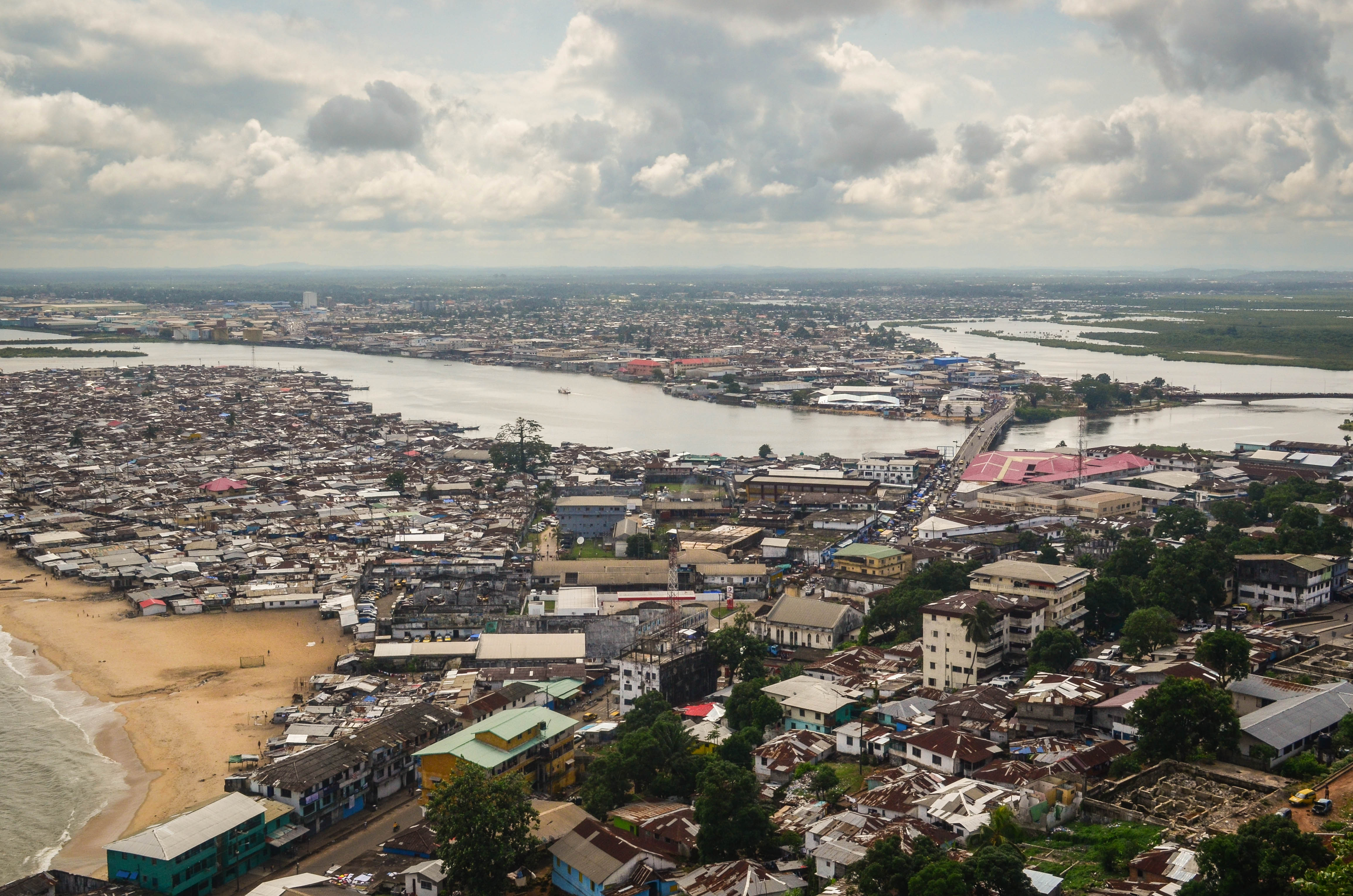 Monrovia is the capital of the West African country named Liberia. Located on the Atlantic Coast at Cape Mesurado, it has a population of about 1 million people, the country's most populous city. The picture shows the main highway as well as two large slum settlements near the harbor.